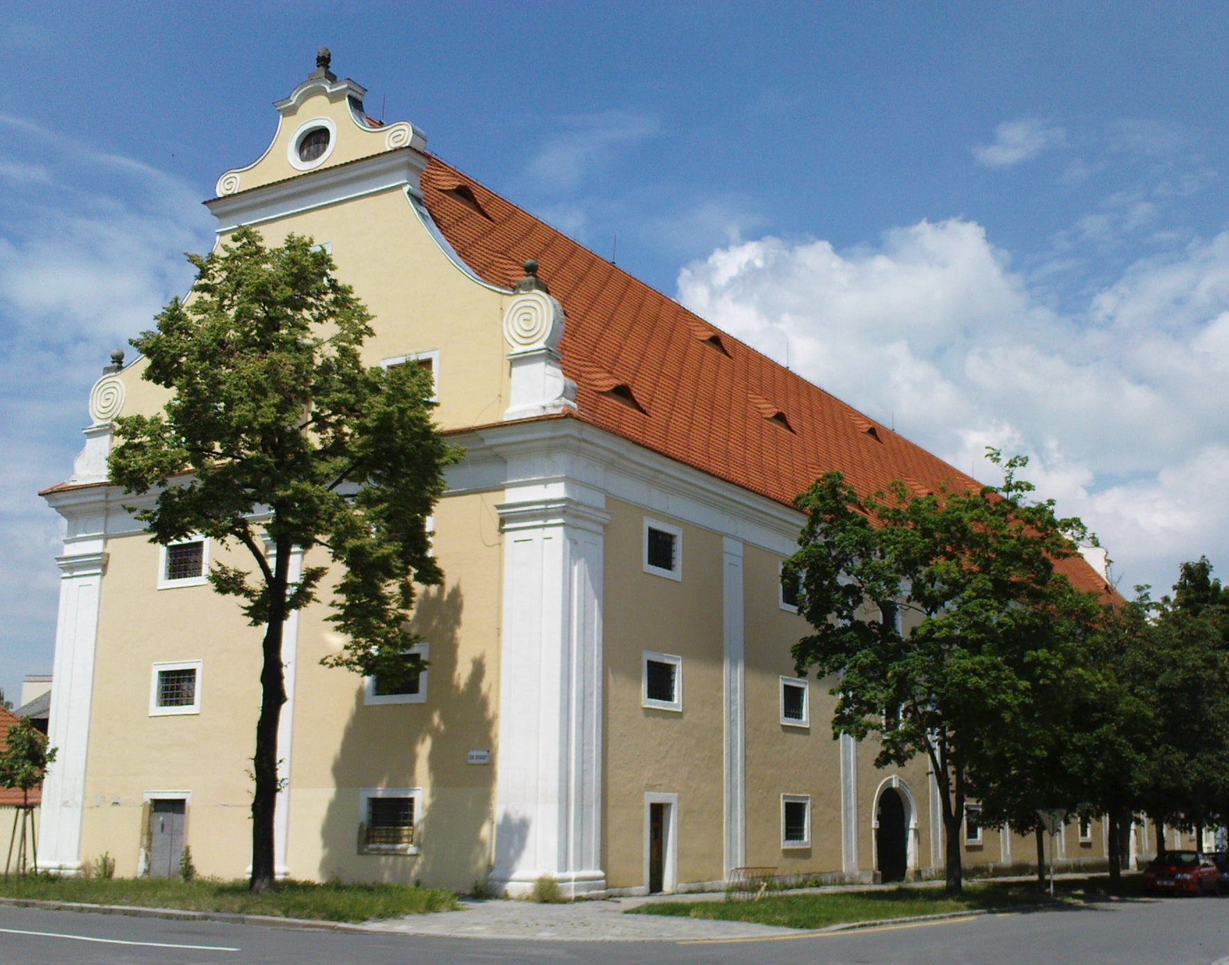 The building of the episcopal granary in Kroměříž, Moravia (Czechia) from 1711 (G. P. Tencalla), today on the Gen. Svoboda Street Česky: Budova barokní biskupské sýpky v Kroměříži, postavená podle plánu G. P. Tencally v někdejší osadě Novosady (dokončena 1711), dnes na třídě gen. Svobody